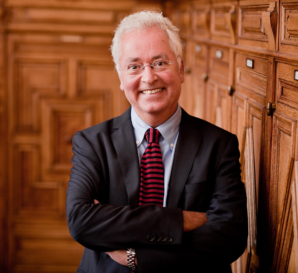 Stephen J. Bury, art historian with the Frick Art Reference Library, in the reading room of the Frick Art Reference Library, New York.